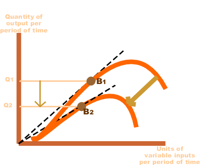 Shifting production function small